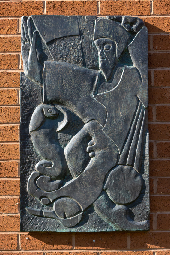 Charmer is a relief sculpture of a snake charmer by Jon Edgar. A bronze cast of the original slate carving, it is on the west wall of the Performing Arts technology studios at the University of Surrey